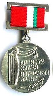 Obverse of the Medal "People's Artist of the Tajik SSR" in Tajik and Russian Тоҷикӣ: Обверси Медали "Артисти Халқии РСС Тоҷикистон" дар забонони тоҷикию русӣ.